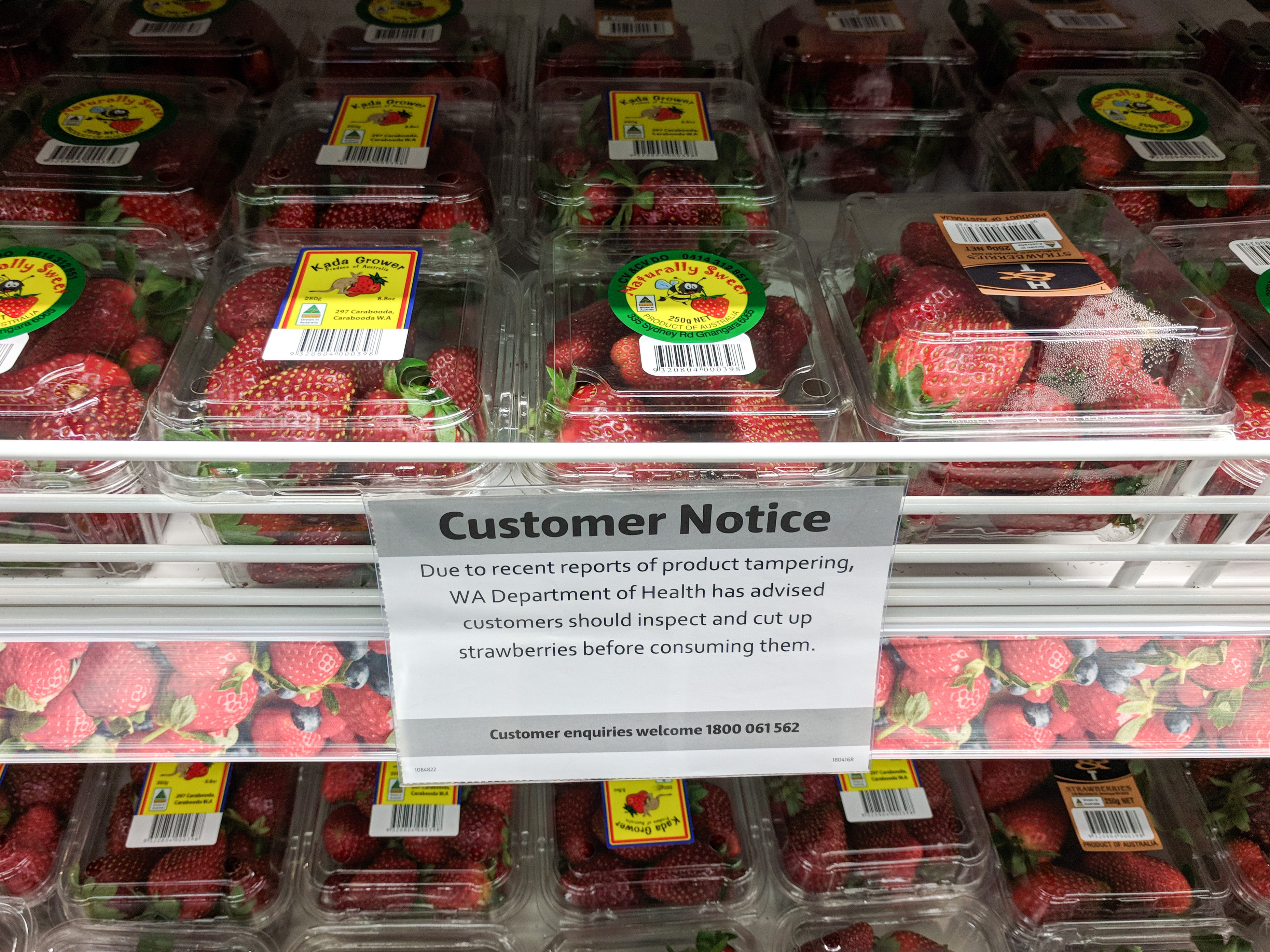 Strawberries on sale in a Coles supermarket in Perth, Western Australia with a notice warning customers about recent reports of product tampering